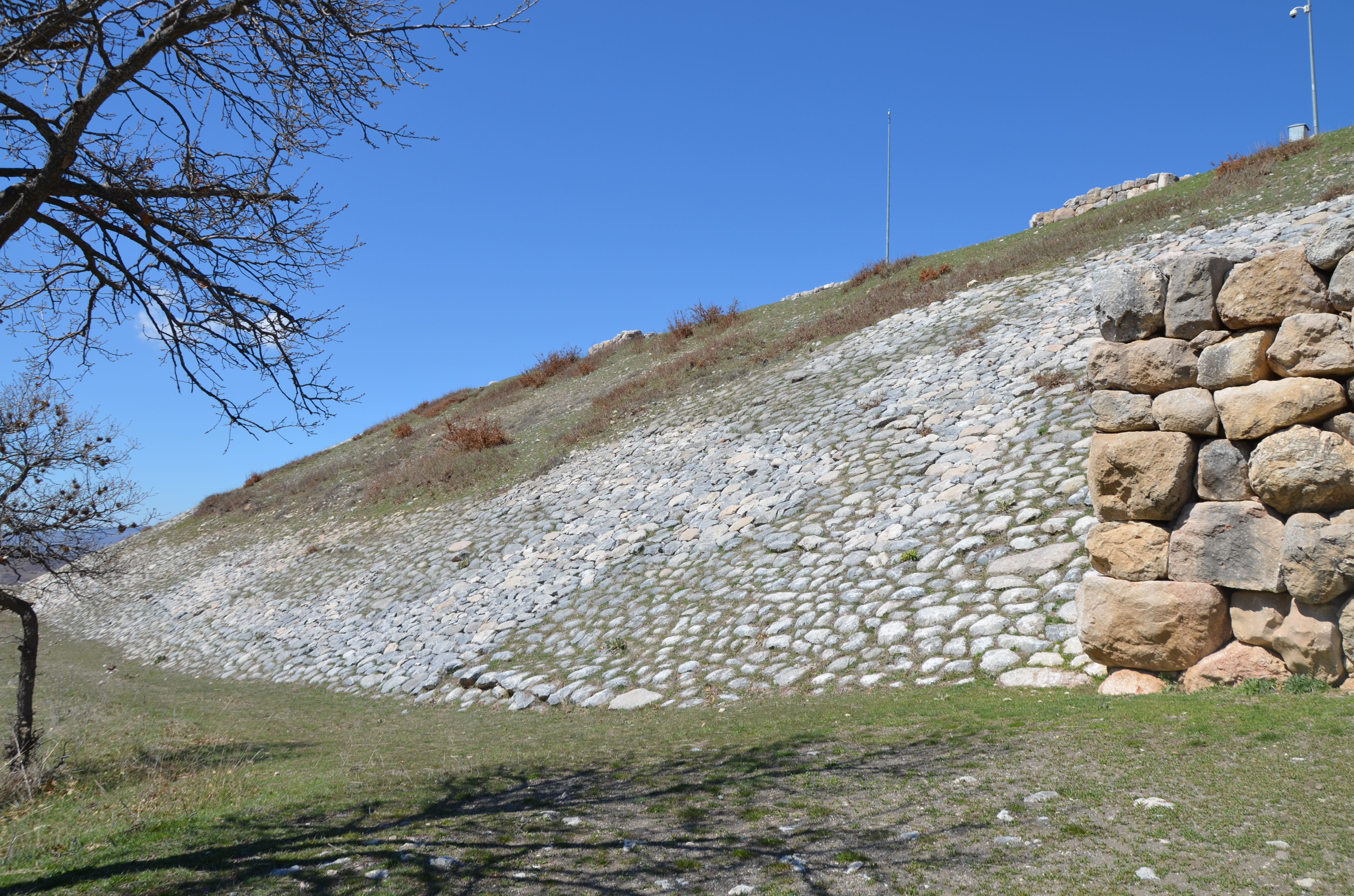 Hattusa, the capital of the Hittite Empire in the late Bronze Age, Boğazkale, Turkey